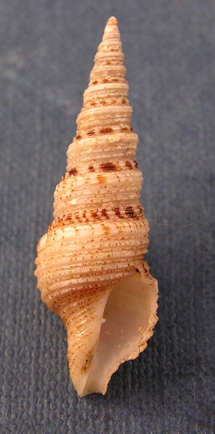 Lophiotoma olangoensis Olivera, 2002, a turrid from the family Turridae; Philippines